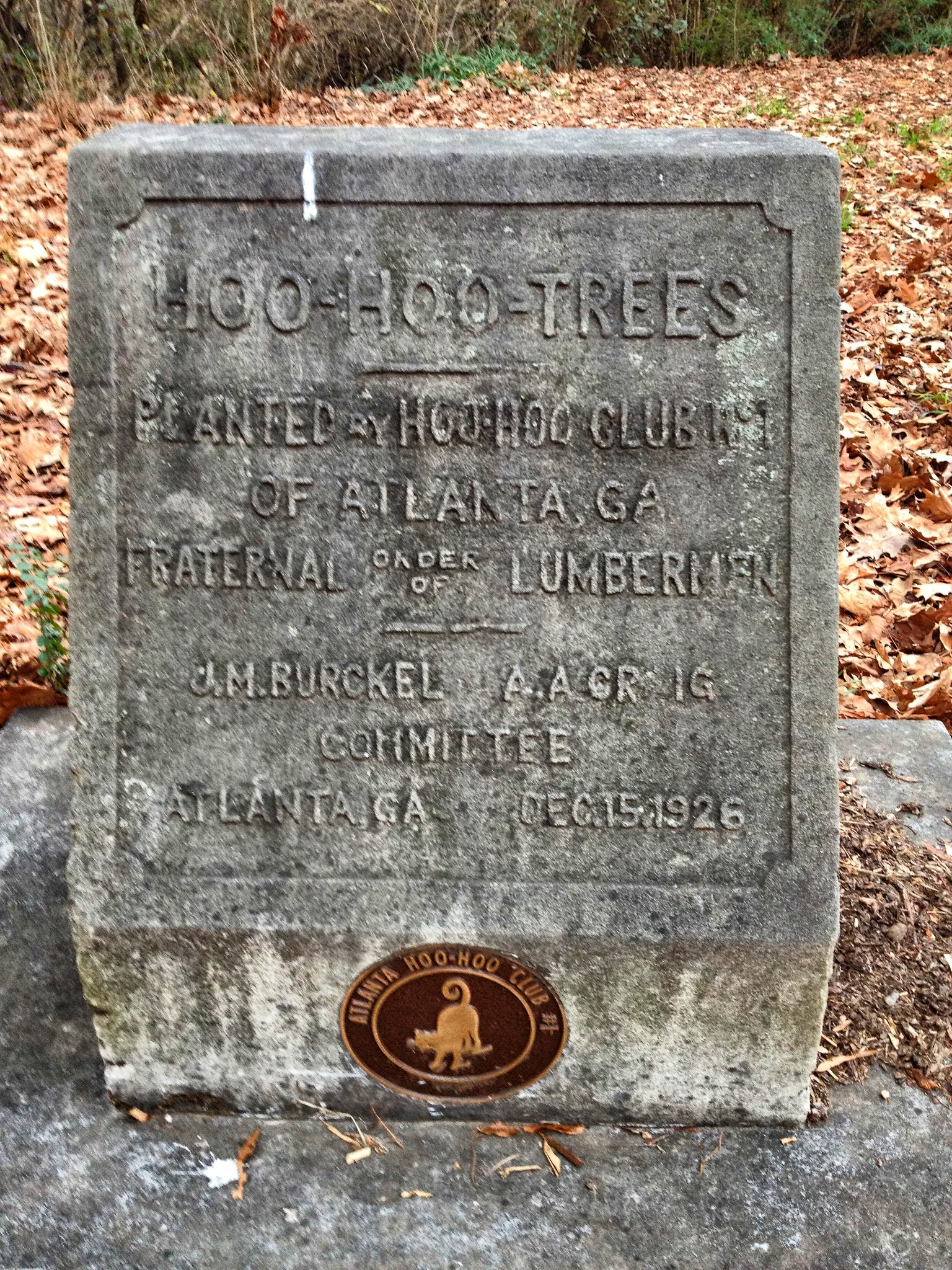 Monument to 1926 Hoo Hoo Club tree planting, Piedmont Park, Atlanta